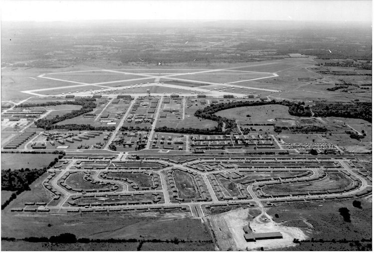 Smyrna Army Airfield. Image enhanced to improve contrast and clarity.